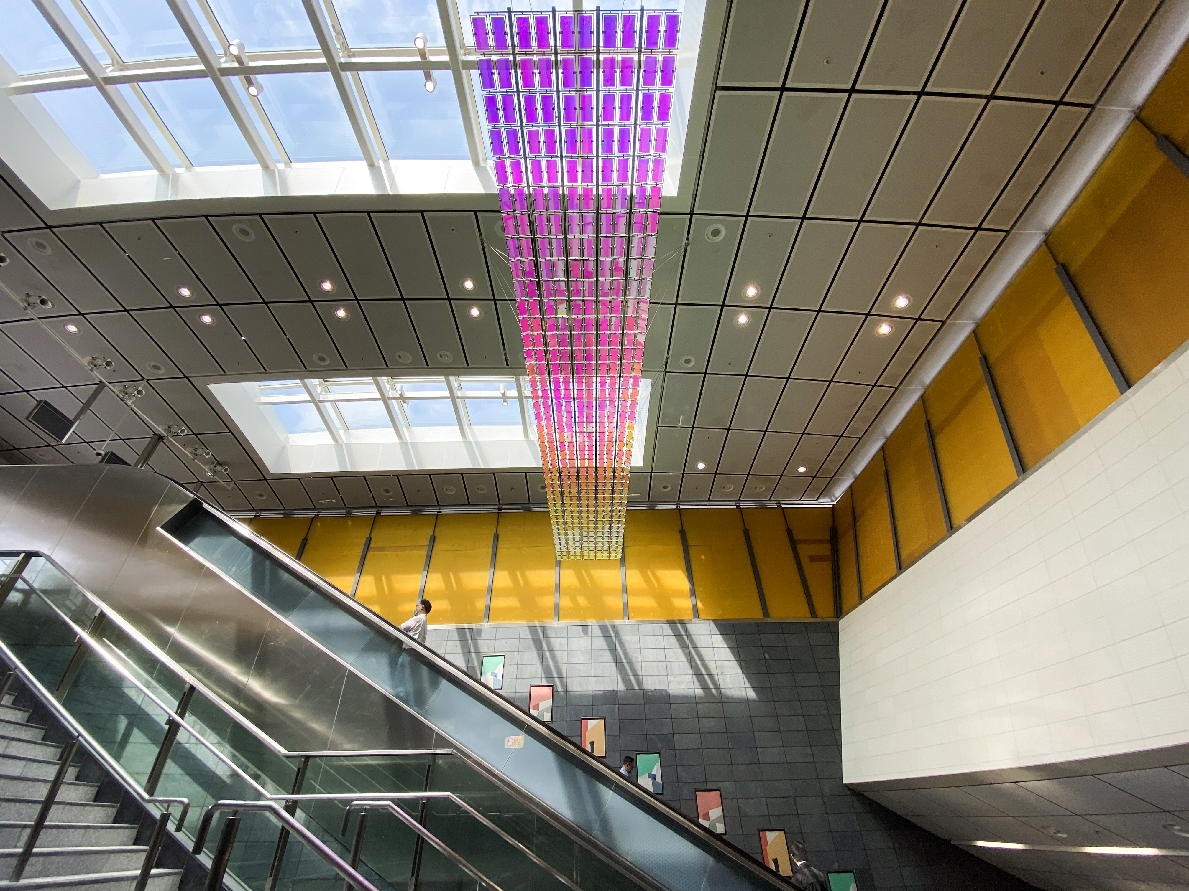 Kai Tak Station Exit D decoration